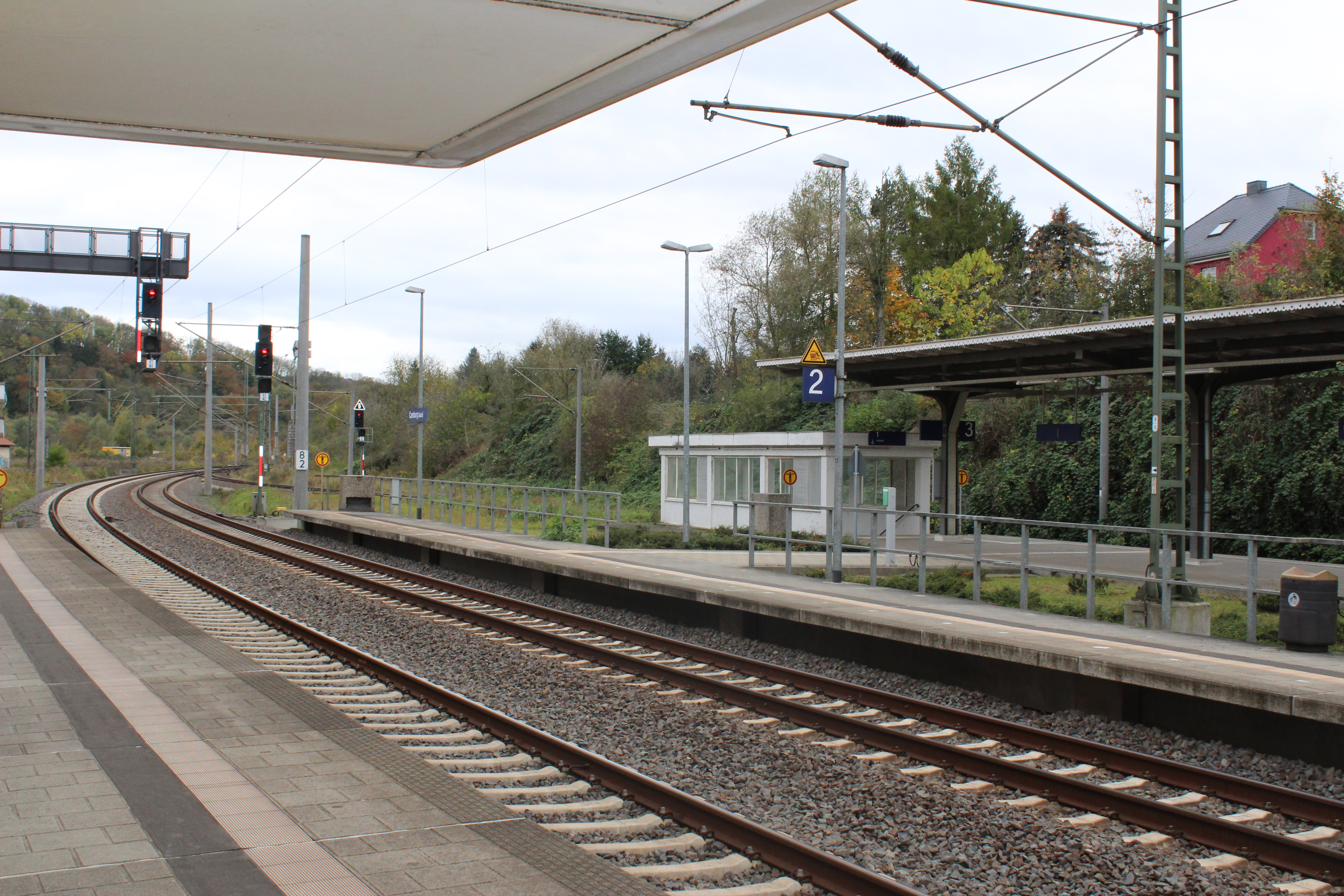 train station Camburg (Saale), platforms